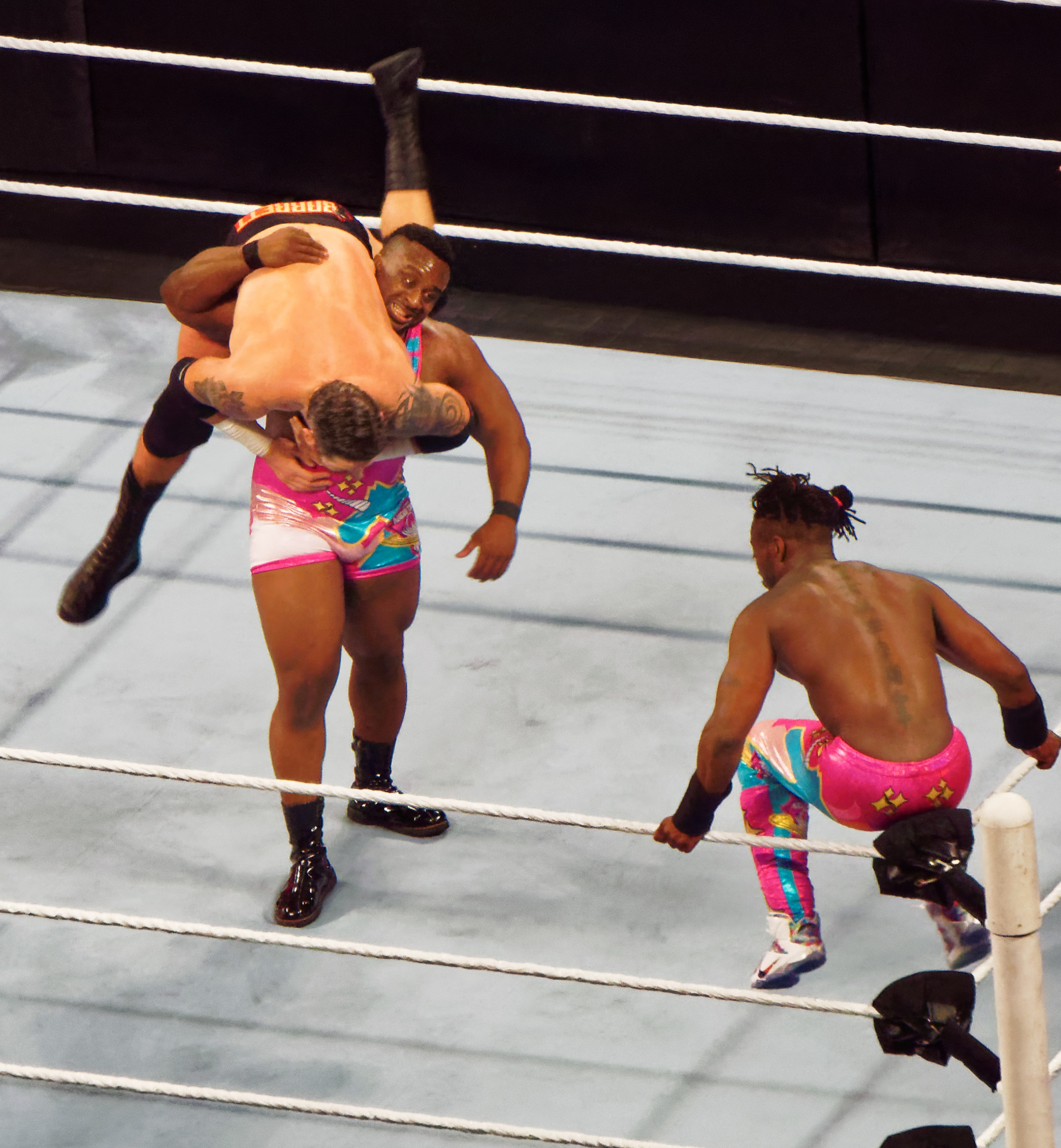 The New Day performing the Midnight Hour on Raw on April 4, 2016.